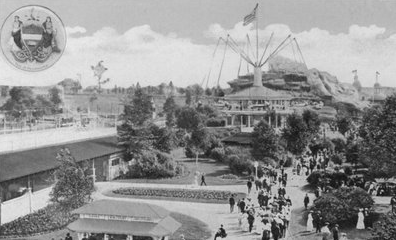 Willow Grove Park, Willow Grove, Pennsylvania Other information No.